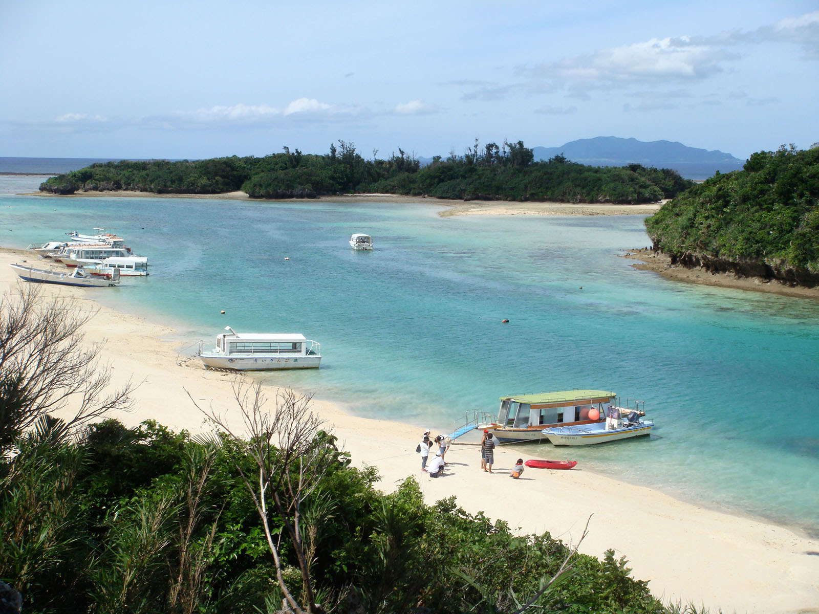 Kabira Gulf, Ishigaki Island, Okinawa Prefecture, Japan